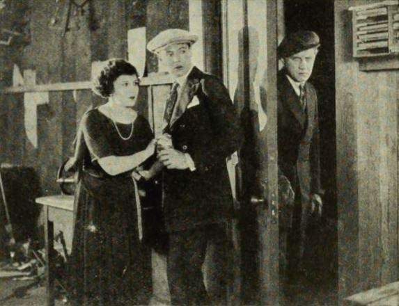 Still from the American film Smudge (1922) with Ora Carew, Charles Ray, and Charles K. French, on page 57 of the September 1922 Photoplay.